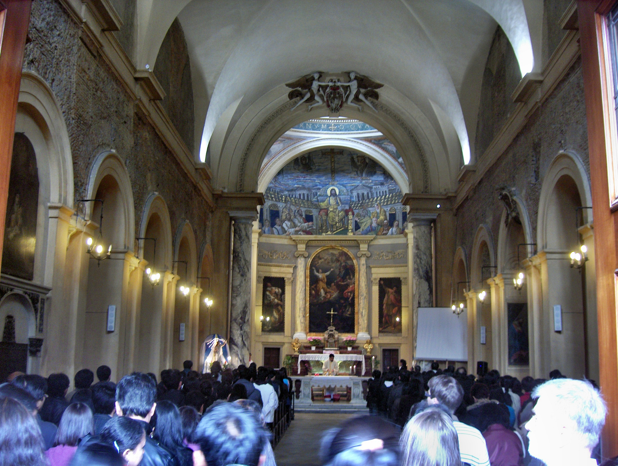 Nave of the church of Santa Pudenziana, Rome, Italy